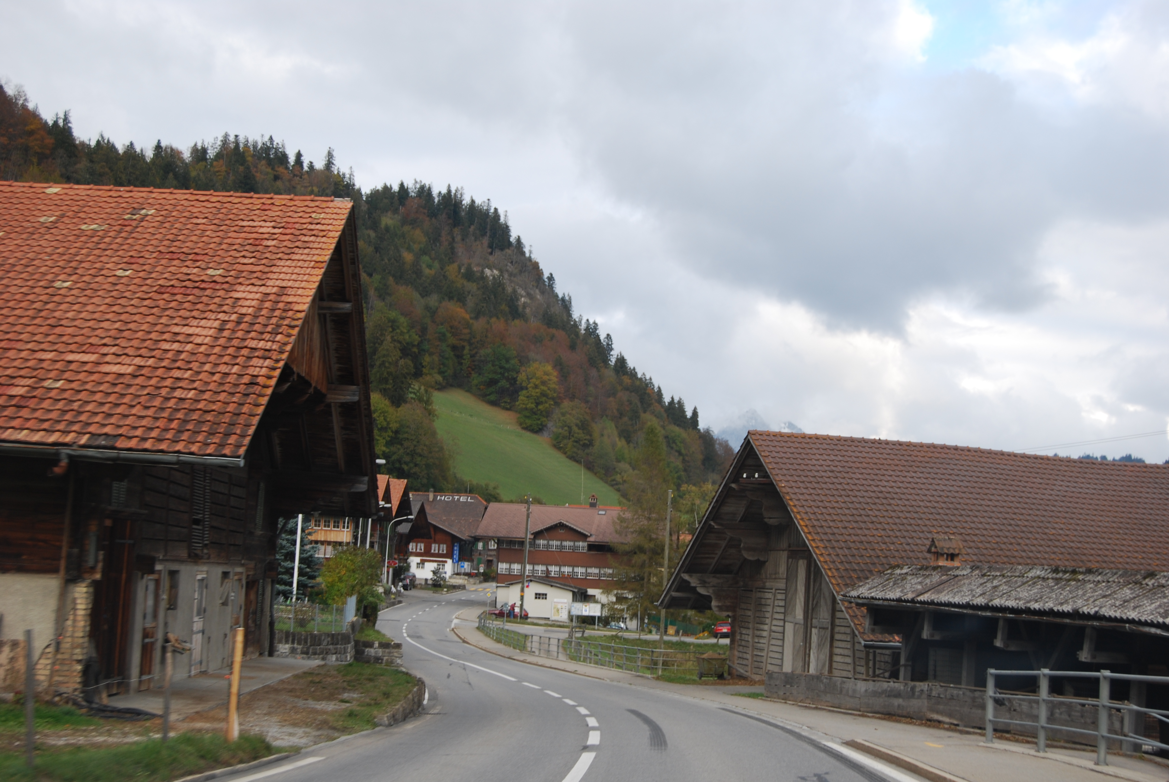 Boltigen, canton of Bern, SwitzerlandEsperanto: Boltigen, Kantono Berno, Svislando